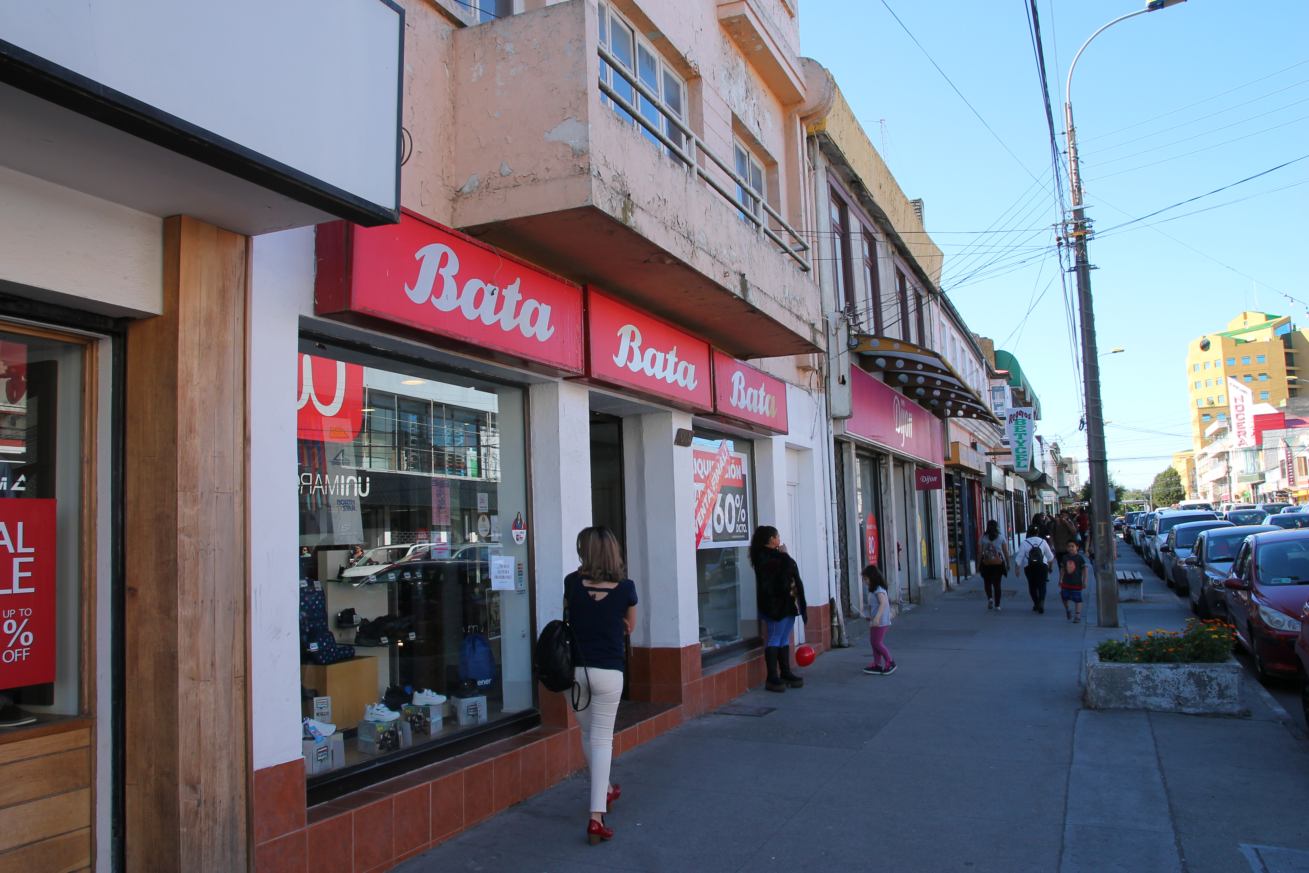 The southernmost Bata shop, Punta Arenas